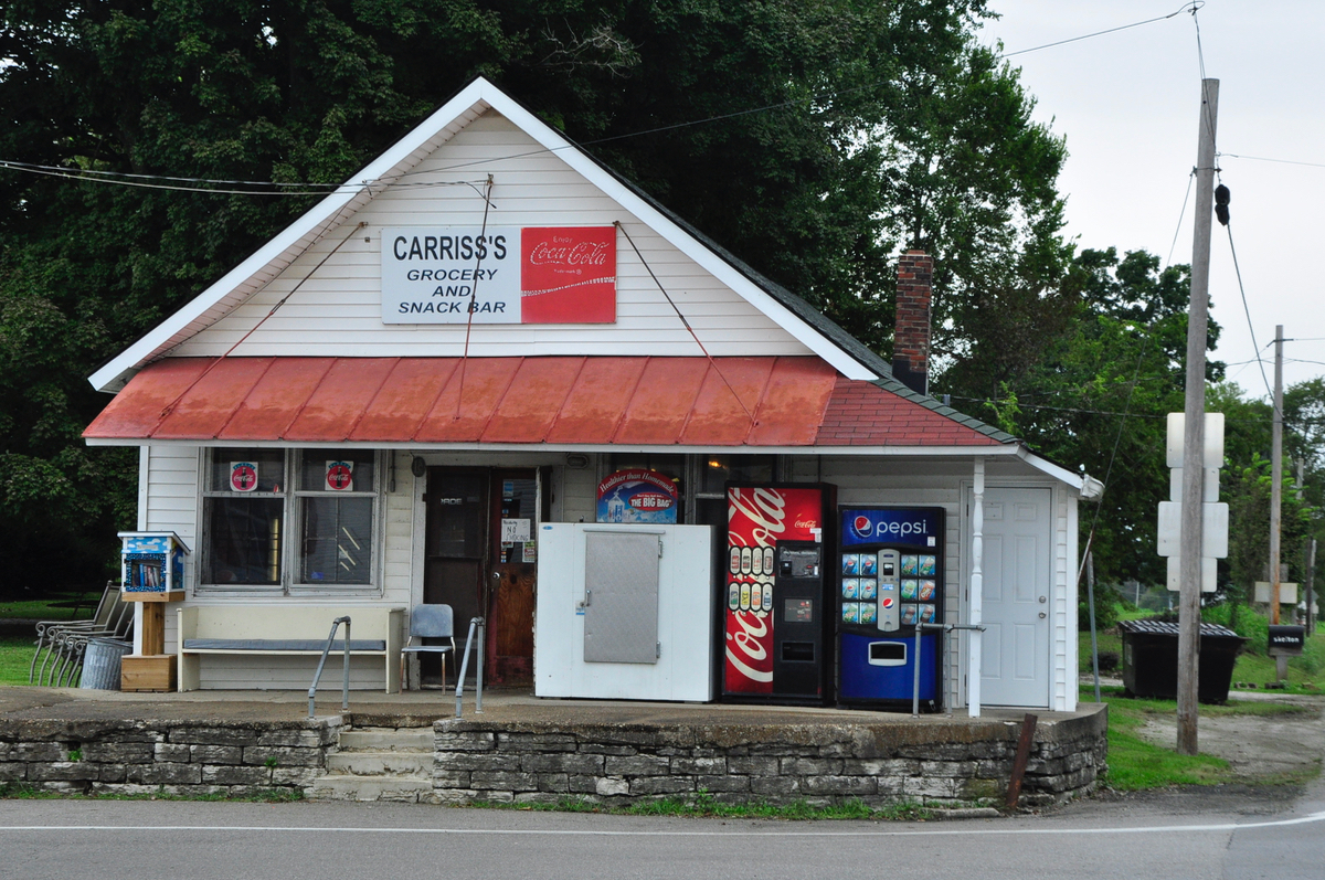 Carriss's Feed & Grocery Store is located at the south west intersection of Kentucky State Road 55 and Kentucky State Road 44 in Southville, Kentucky and has been in this location since 1915.